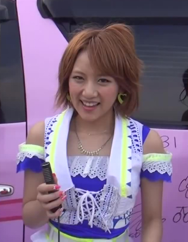 Minami Takahashi in 2013